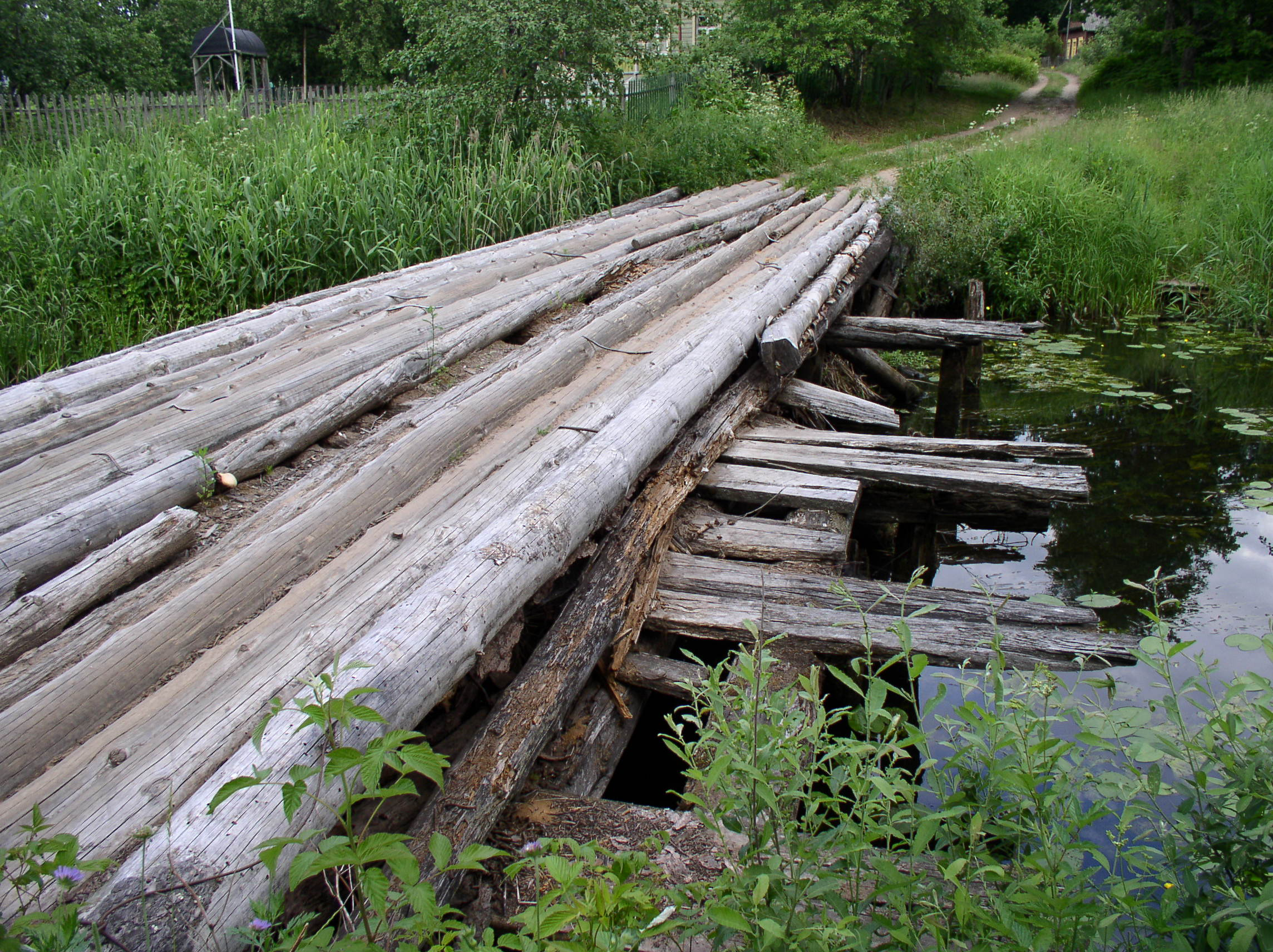 Bridge over Chyernyets River near Chukhilino, Belarus/Russia border.